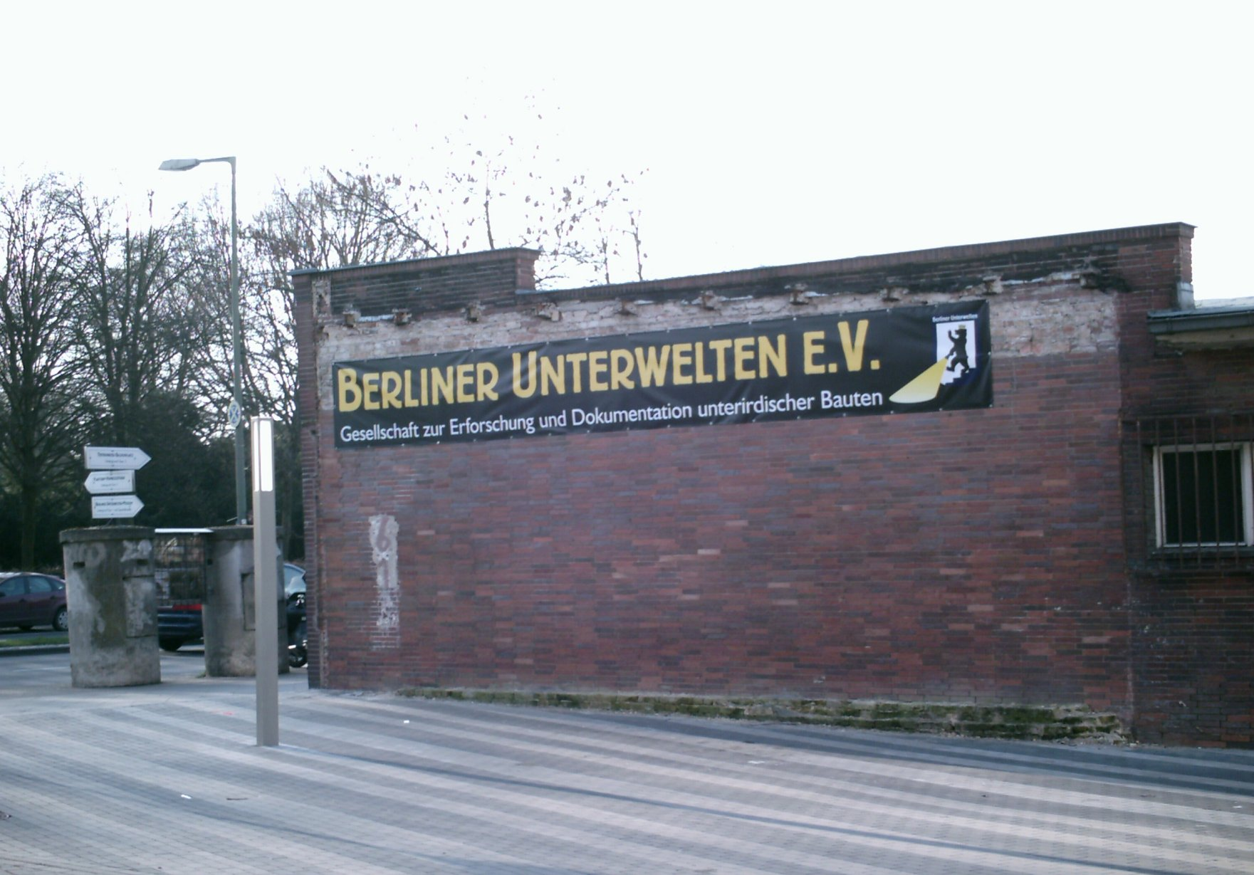 The Berlin U-Bahn station "Gesundbrunnen", line U8 - entrance with logo 'Berliner Unterwelten e. V.'